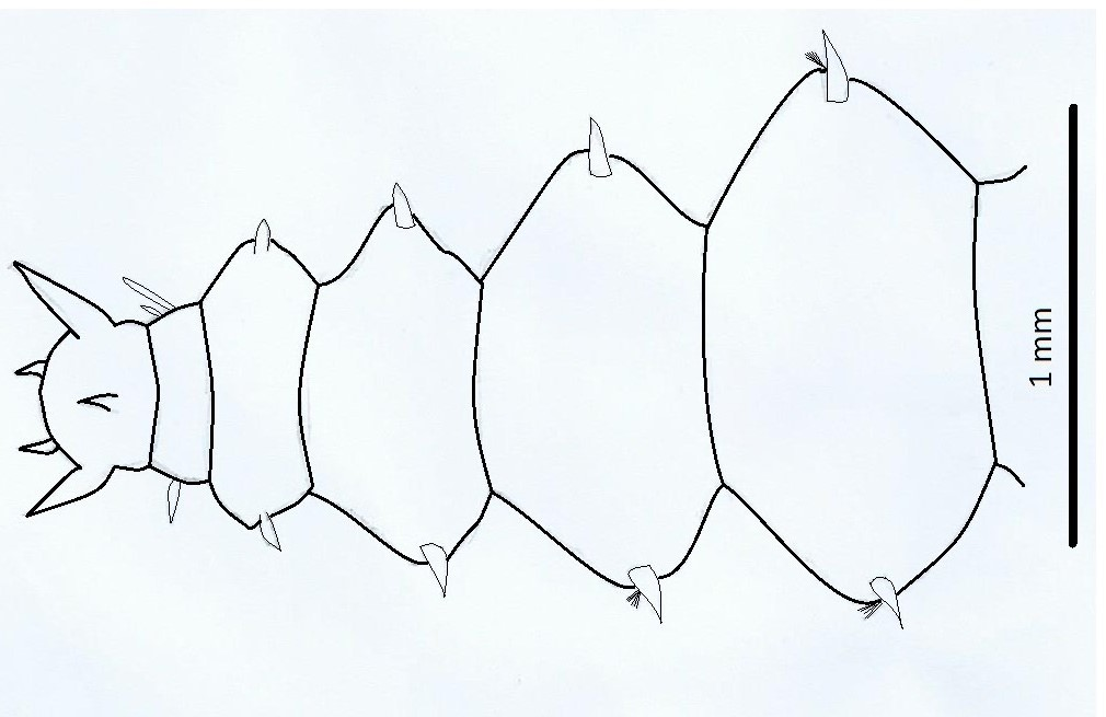 Ilustração da espécie Antonbruunia sociabilis, família Antonbruunidae. Visão anterior dorsal.